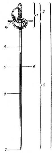 Degen (court sword digramm)